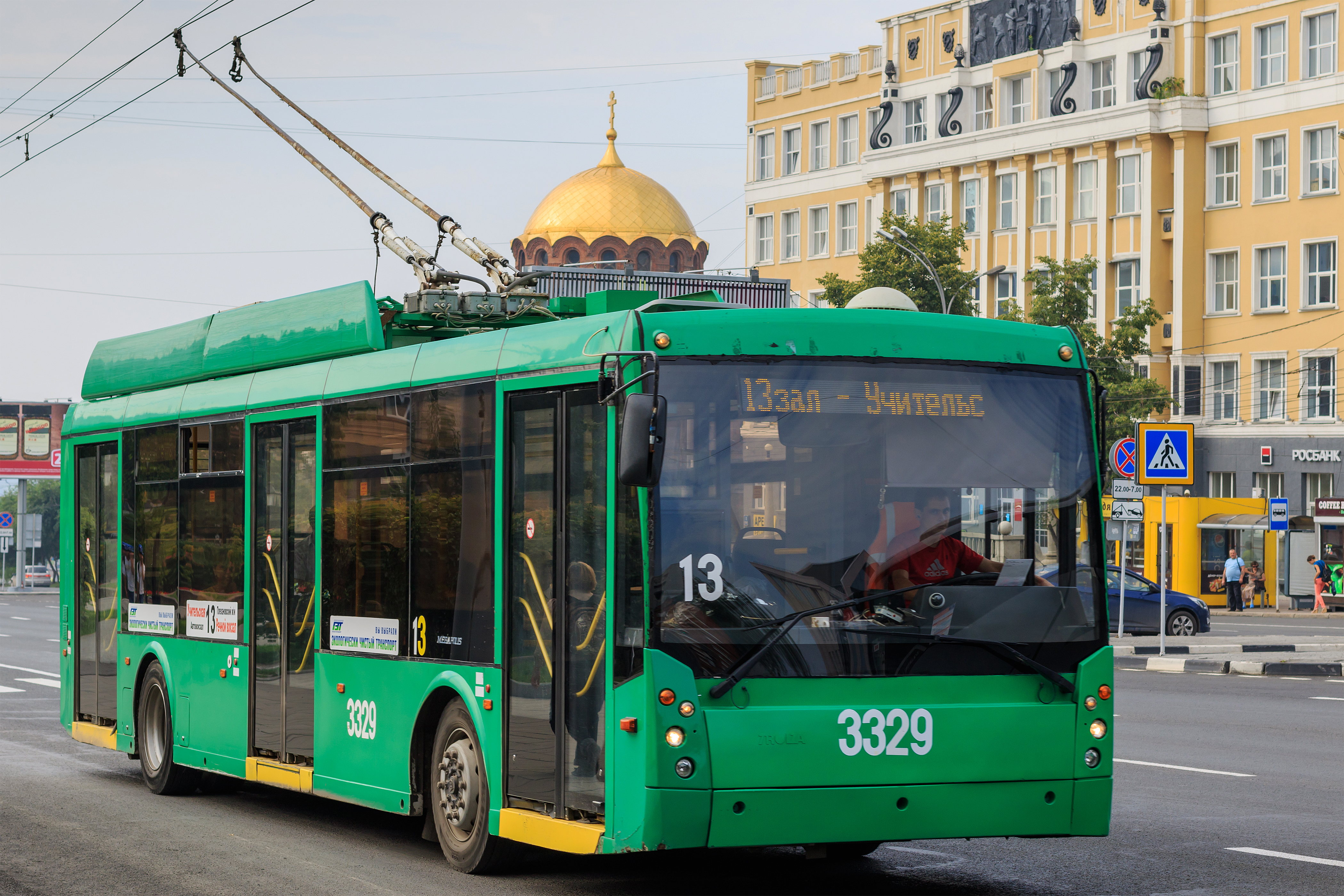 Trolza-5265 trolley at Krasny Prospekt in Novosibirsk, Russia